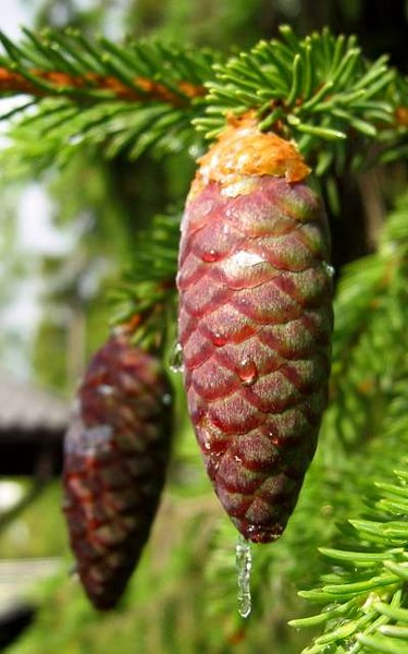 Norway Spruce cone